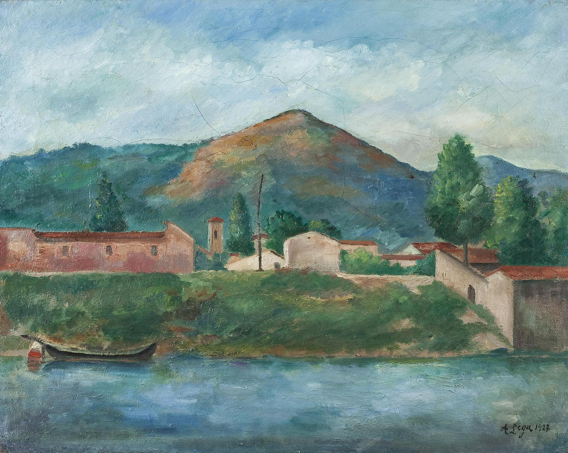 Arno Hermitage Museum Native nameГосударственный ЭрмитажLocationSaint PetersburgCoordinates59° 56′ 26″ N, 30° 18′ 49″ E Established1764Web pagehermitagemuseum.orgAuthority control : Q132783 VIAF: 128956287 ISNI: 0000 0001 2285 6617 LCCN: n79100241 NLA: 35139924 GND: 2124053-X WorldCat institution QS:P195,Q132783